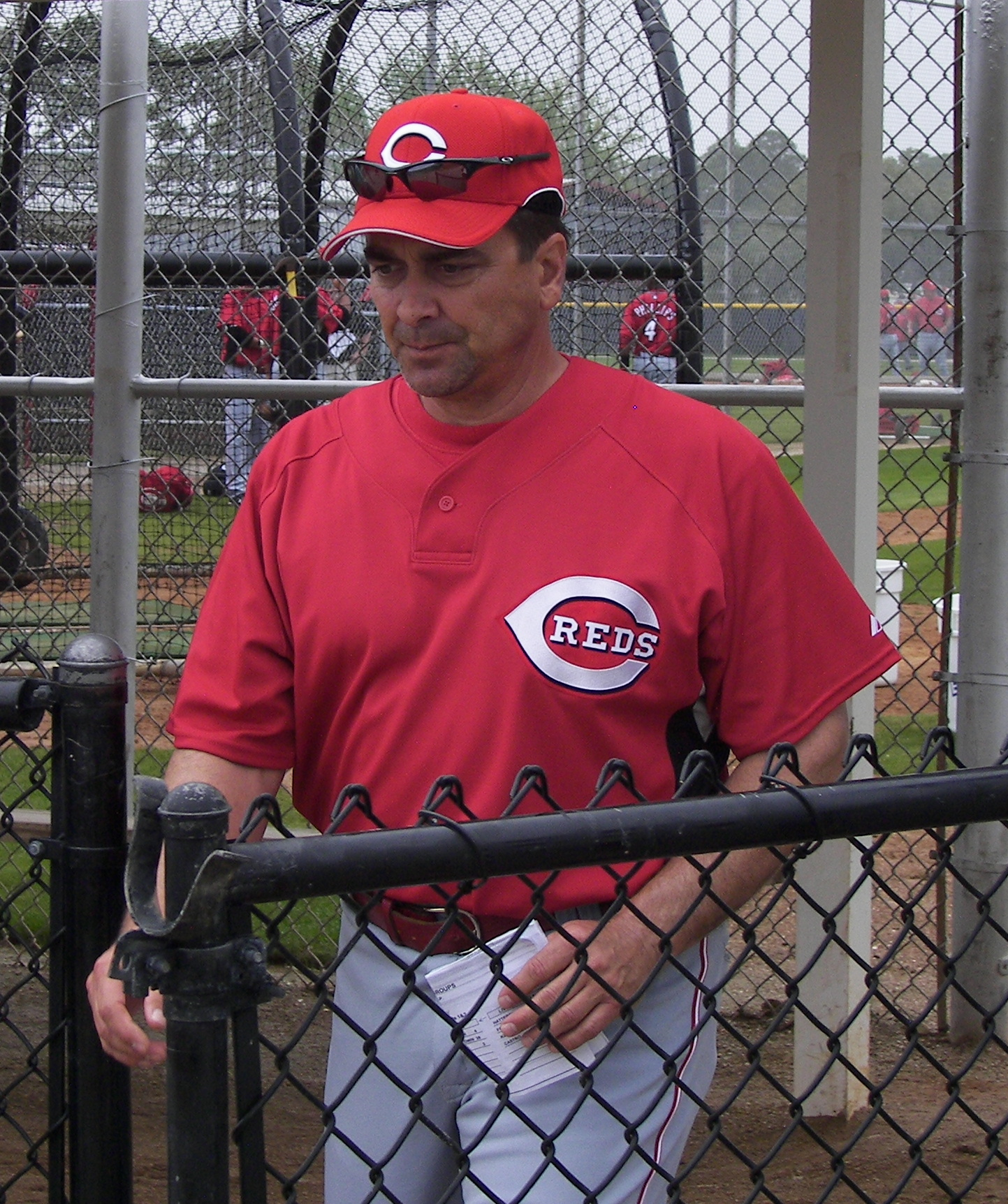 Cincinnati Reds coach and former player Brook Jacoby during a Spring Training workout outside Ed Smith Stadium in Sarasota, Florida.